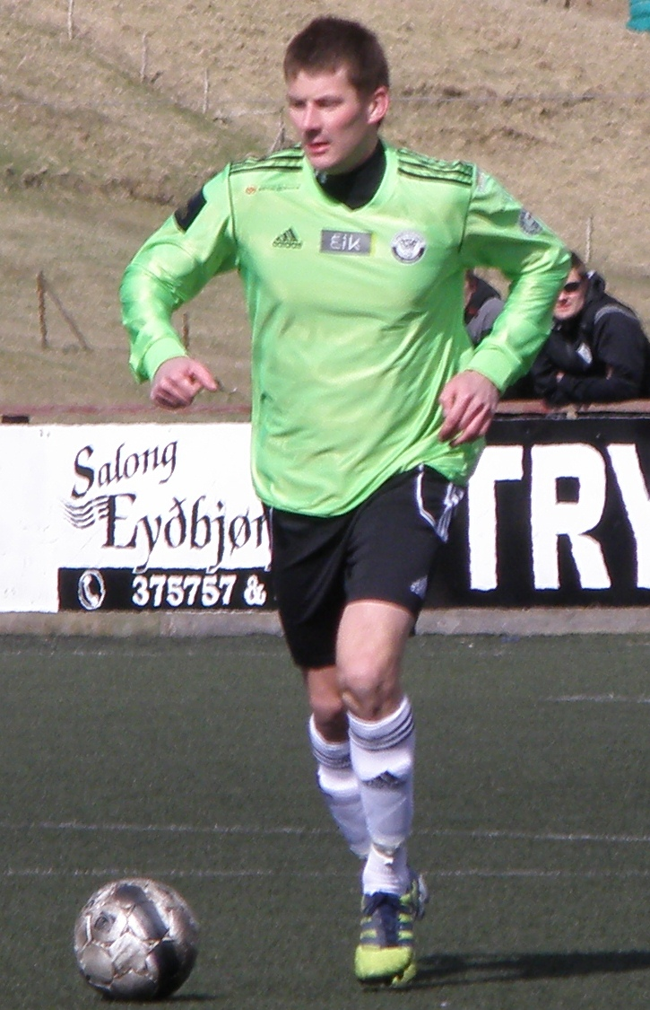 Atli Danielsen is a Faroese football player, who currently (2012) plays for B36 Tórshavn. He has earlier played for KÍ Klaksvík (Faroese club), Danish club Boldklubben Frem and for Norwegian football club Sogndal Frem. He has also played for 42 matches (until 2011) for the Faroe Islands national team. He is in B36's away colours here, in a match against TB Tvøroyri. Føroyskt: Alti Danielsen er ein føroyskur fótbóltsspælari, sum hevur spælt 42 landsdystir fyri Føroyar (til juli 2012), hann spælir í løtuni við B36. Hann hevur fyrr spælt við KÍ, danska felagnum Boldklubben Frem og við norska felagnum Sogndal Frem. Hann er í útibúnanum hjá B36.